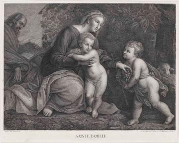 The Holy Family